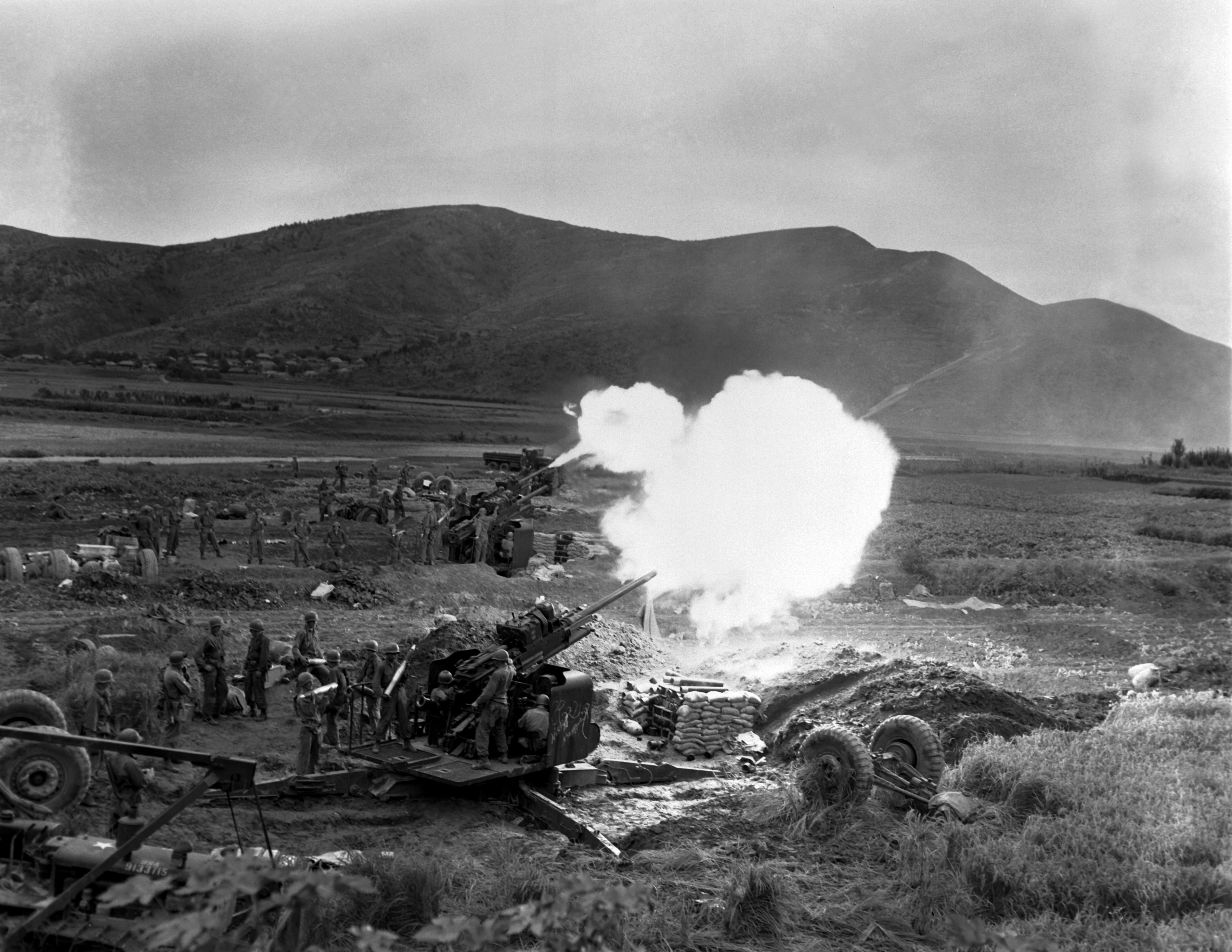 CONFLICT IN KOREA: Div Arty attached to the 1st ROK Div fire 90MM AA against the North Korean forces north of Taegu. NARA FILE#: 111-SC-350451